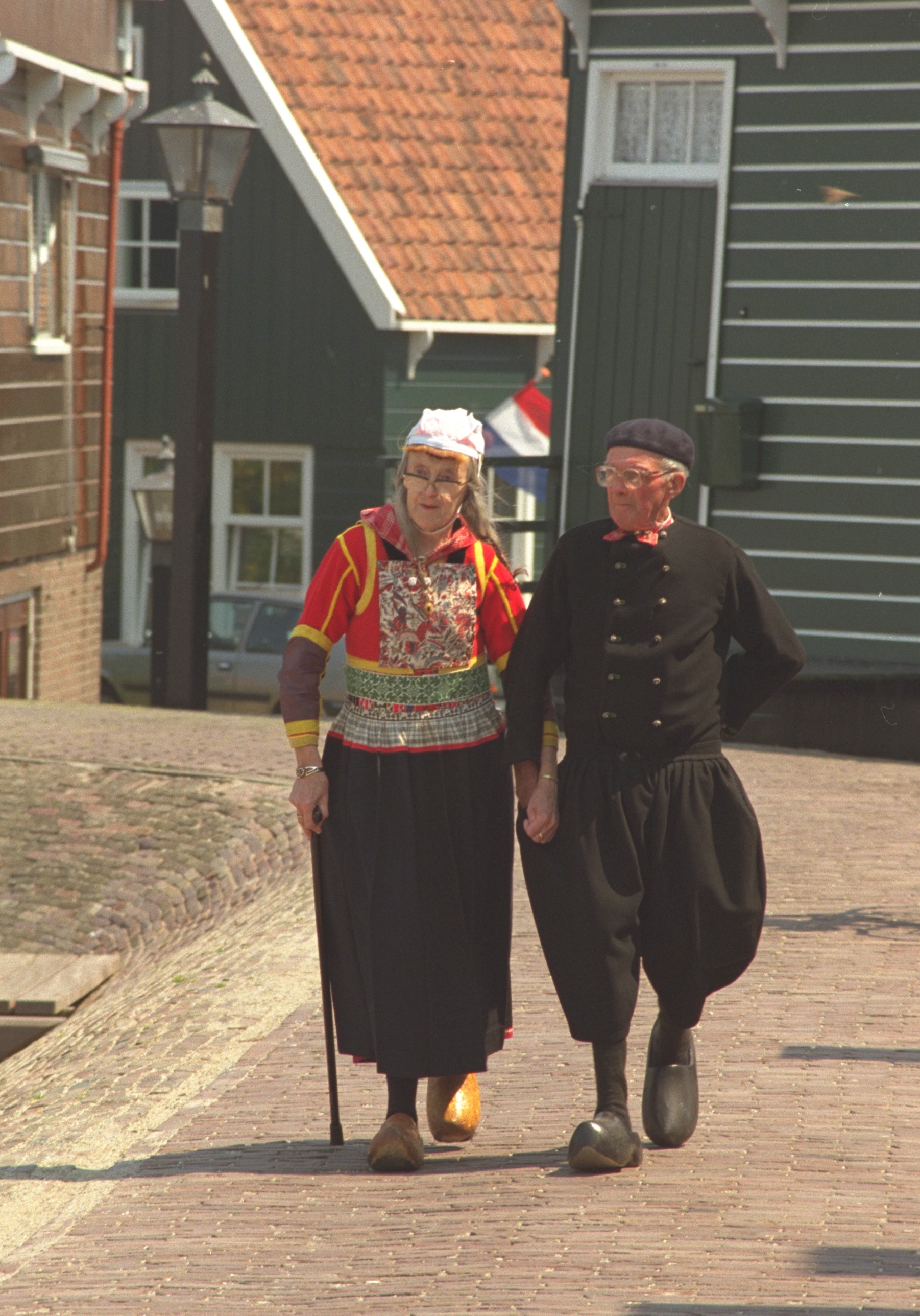 Man and woman in traditional Marken dress. Picture from the second half of the 20th century when people were still wearing traditional clothing during everyday life. This is the typical dress worn at Easter.